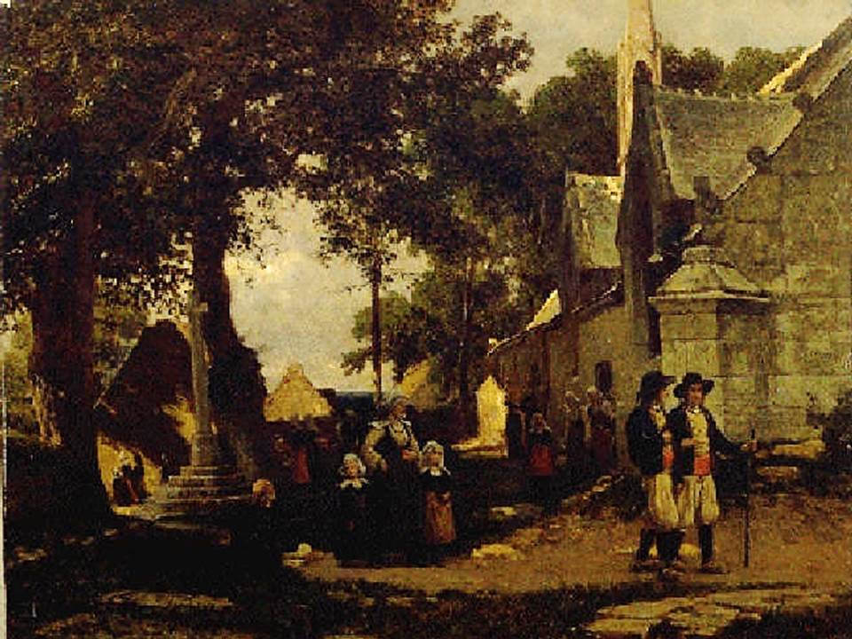 Retour à l'Eglise, painting of scene in Brittany by German artist Otto Weber who was the first to paint in Pont-Aven.